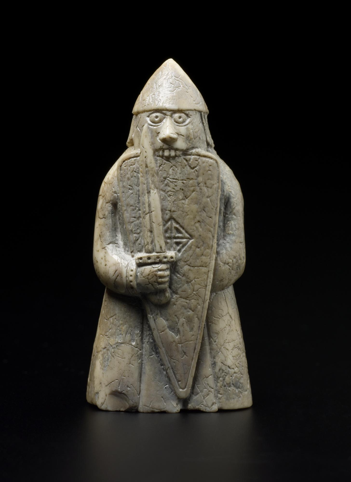 This file was uploaded as part of a partnership between Wikimedia UK and the National Museum of Scotland. This tag does not indicate the copyright status of the attached work. A normal copyright tag is still required. See Commons:Licensing. This work is free and may be used by anyone for any purpose. If you wish to use this content, you do not need to request permission as long as you follow any licensing requirements mentioned on this page.